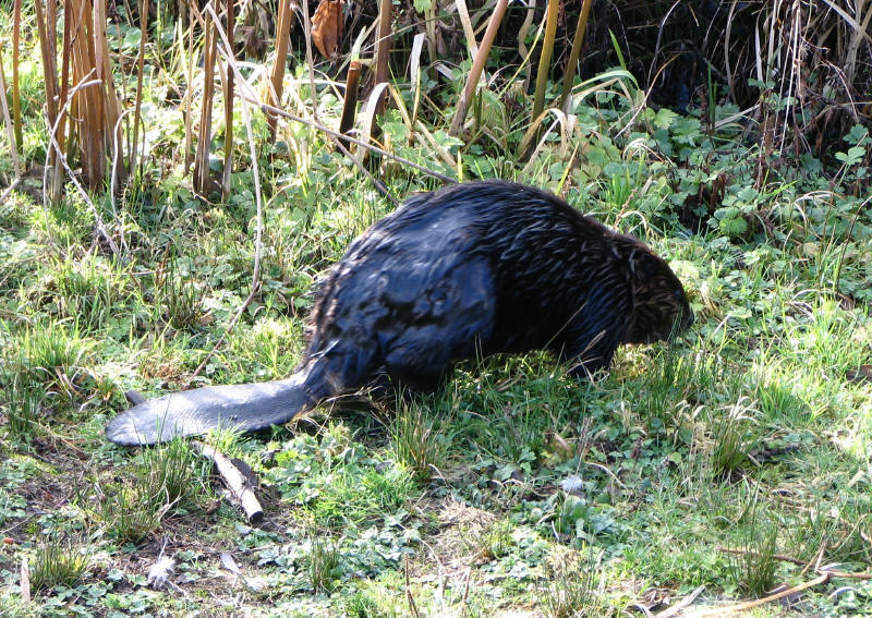 This image was taken by me, Flying Penguin of Pacific Spirit Photography in Burnaby, British Columbia, Canada